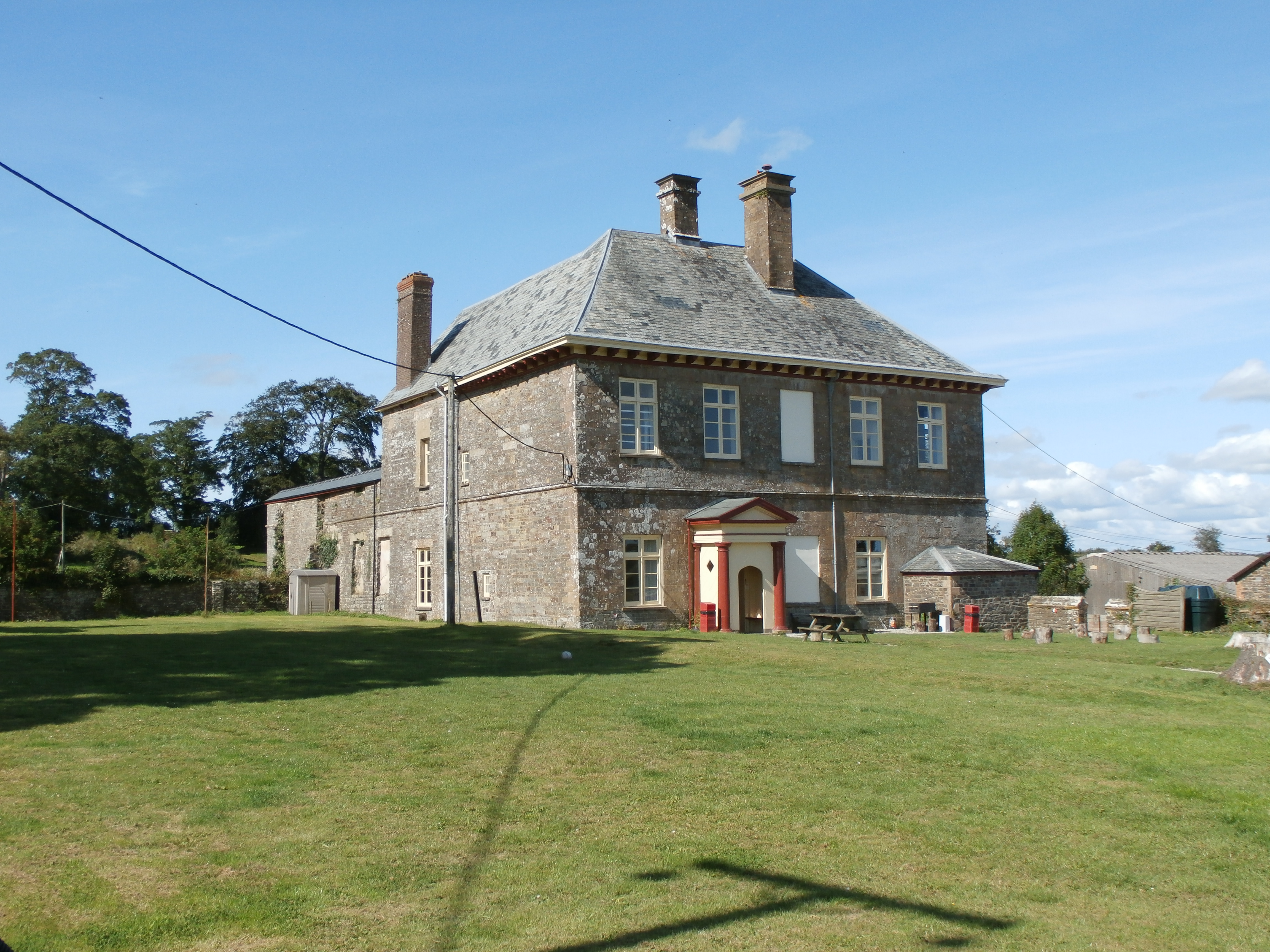 GreatPotheridge, Merton, Devon, England.